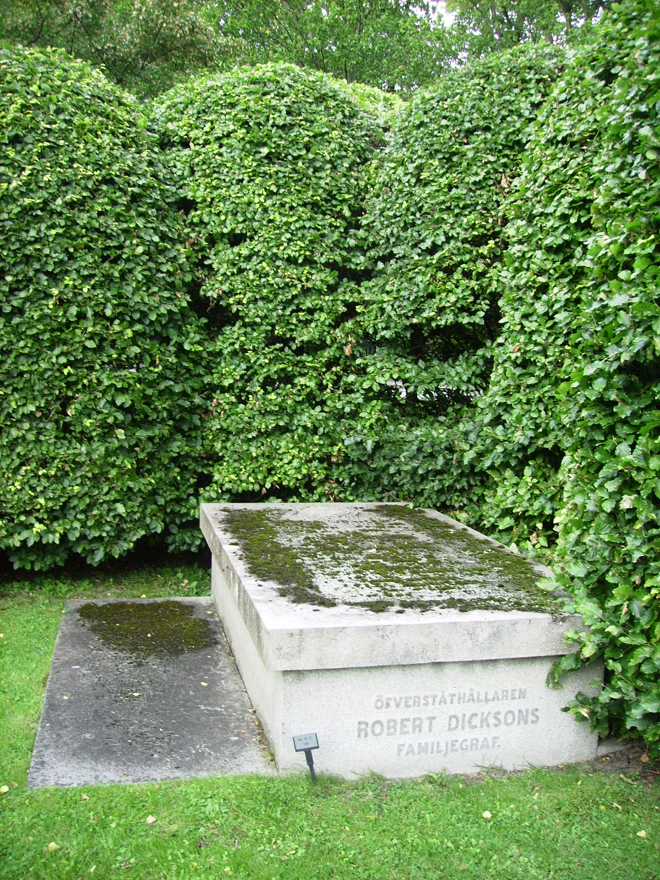 Picture of Robert Dickson's grave at Norra begravningsplatsen in Stockholm